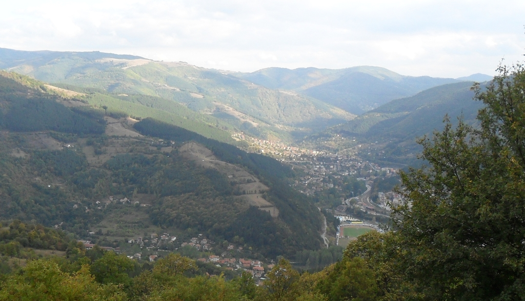 Svoge, view from peak Grohoten - quarters Drenov, Branchovica, Bobkovica, locality "Trite bora" (The Three pines)